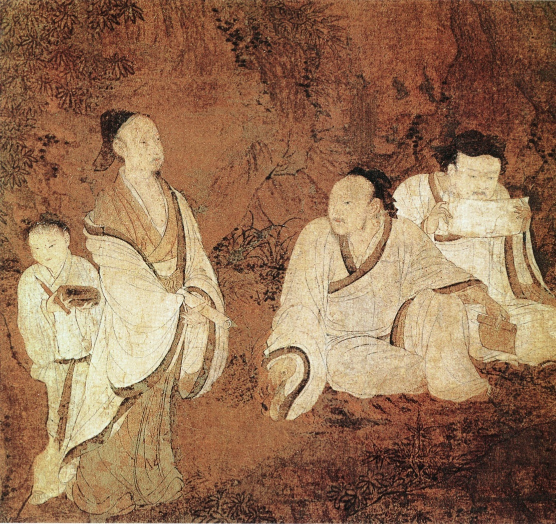 Zhan Ziqian. Studiyng the Classics, Taipei NPM